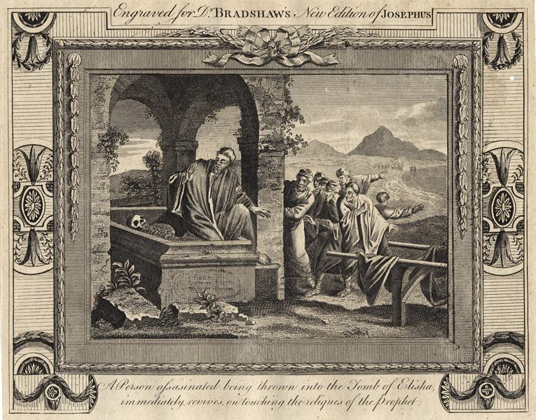 Person being thrown into the tomb of Elisha, immediately revives, on touching the reliques of the Prophet - copper engraving published in Dr. Bradshaw's New Edition of Josephus, about 1790. Size 20.5 x 16 cm